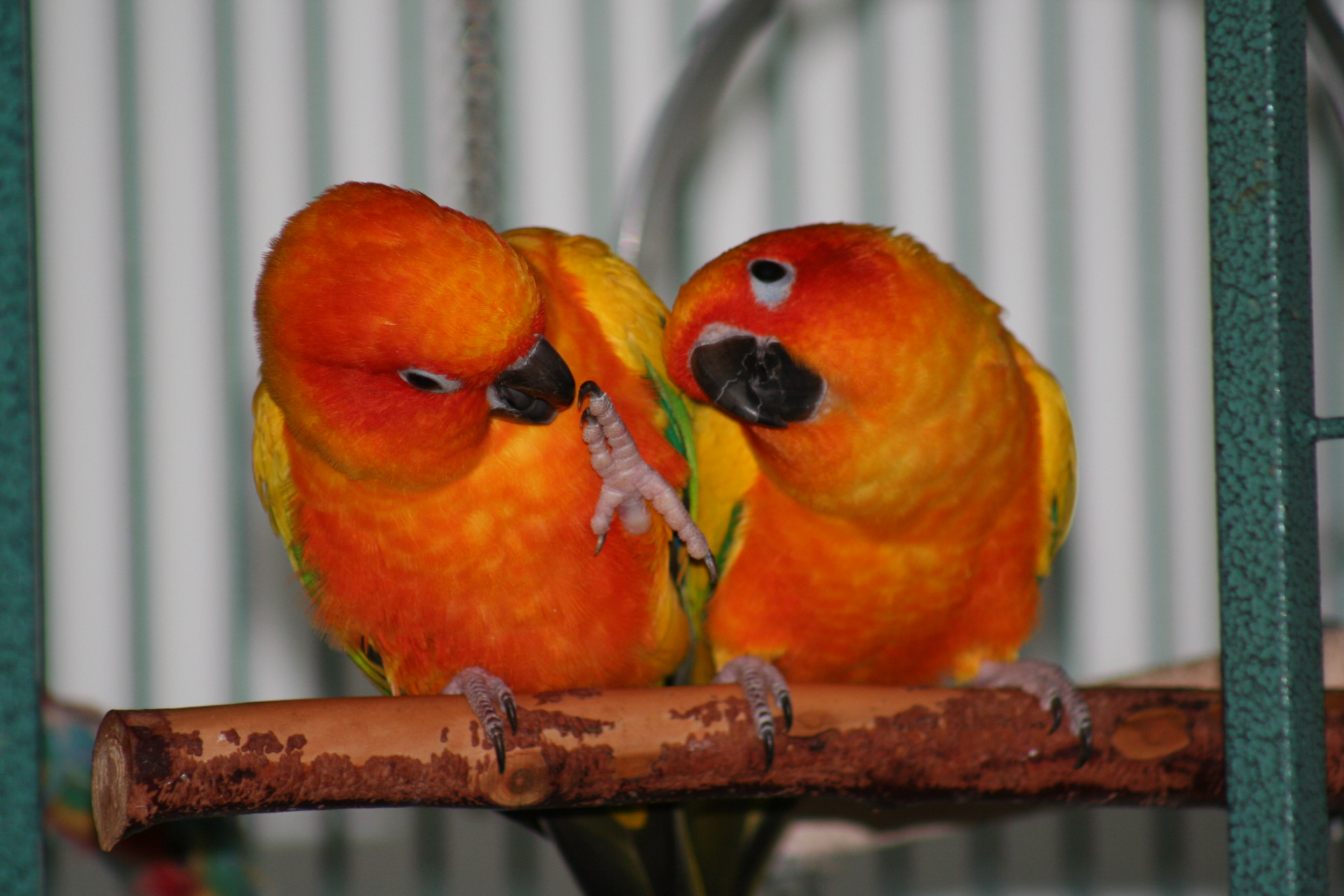 Sun Conure (also known as Sun Parakeet). Pets perching on wooden perch in cage with cage door open.